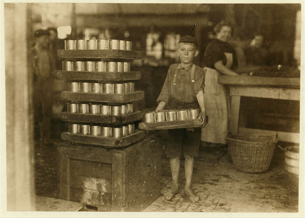 One of the small boys in J. S. Farrand P[ac]king Co. and a heavy load. J. W. Magruder, witness. Location: Baltimore, Maryland.